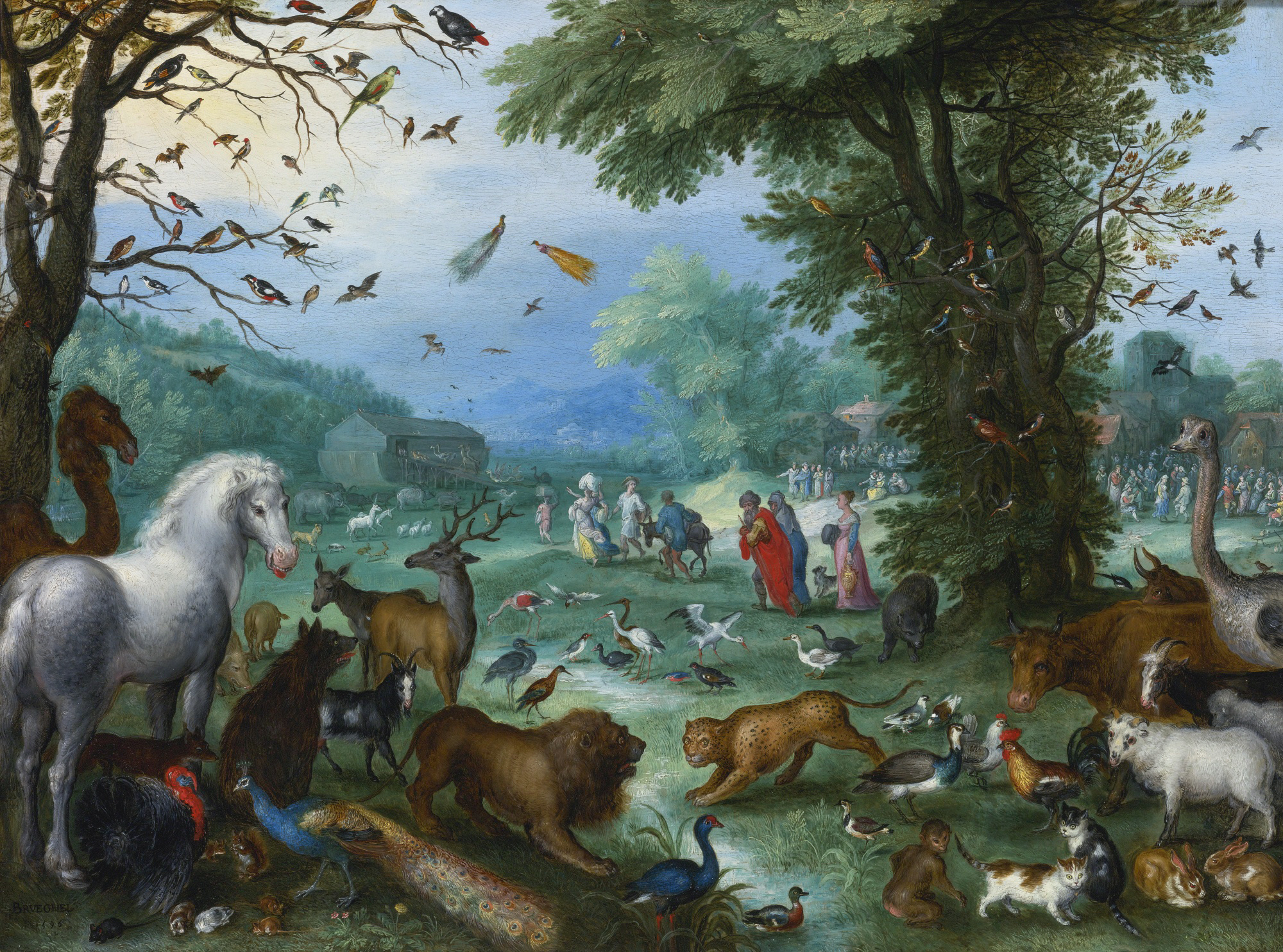 Landscape of Paradise and the Loading of the Animals in Noah’s Ark